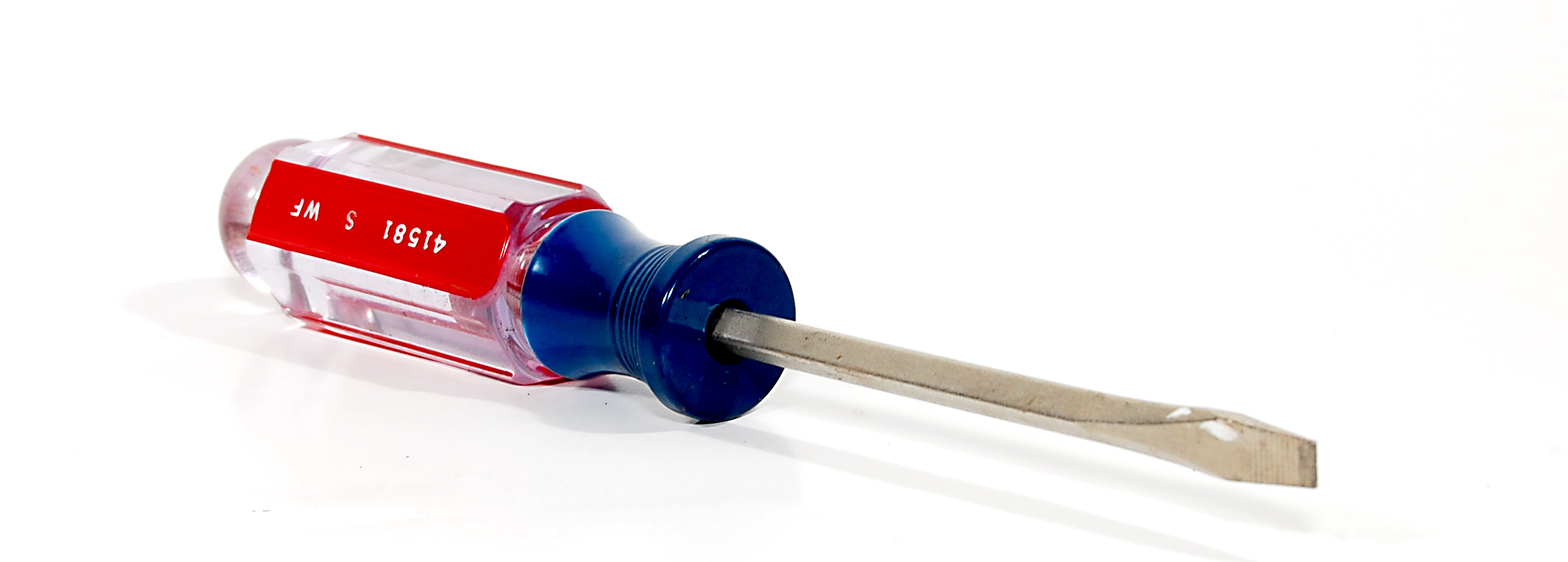 Created by User:Fcb981